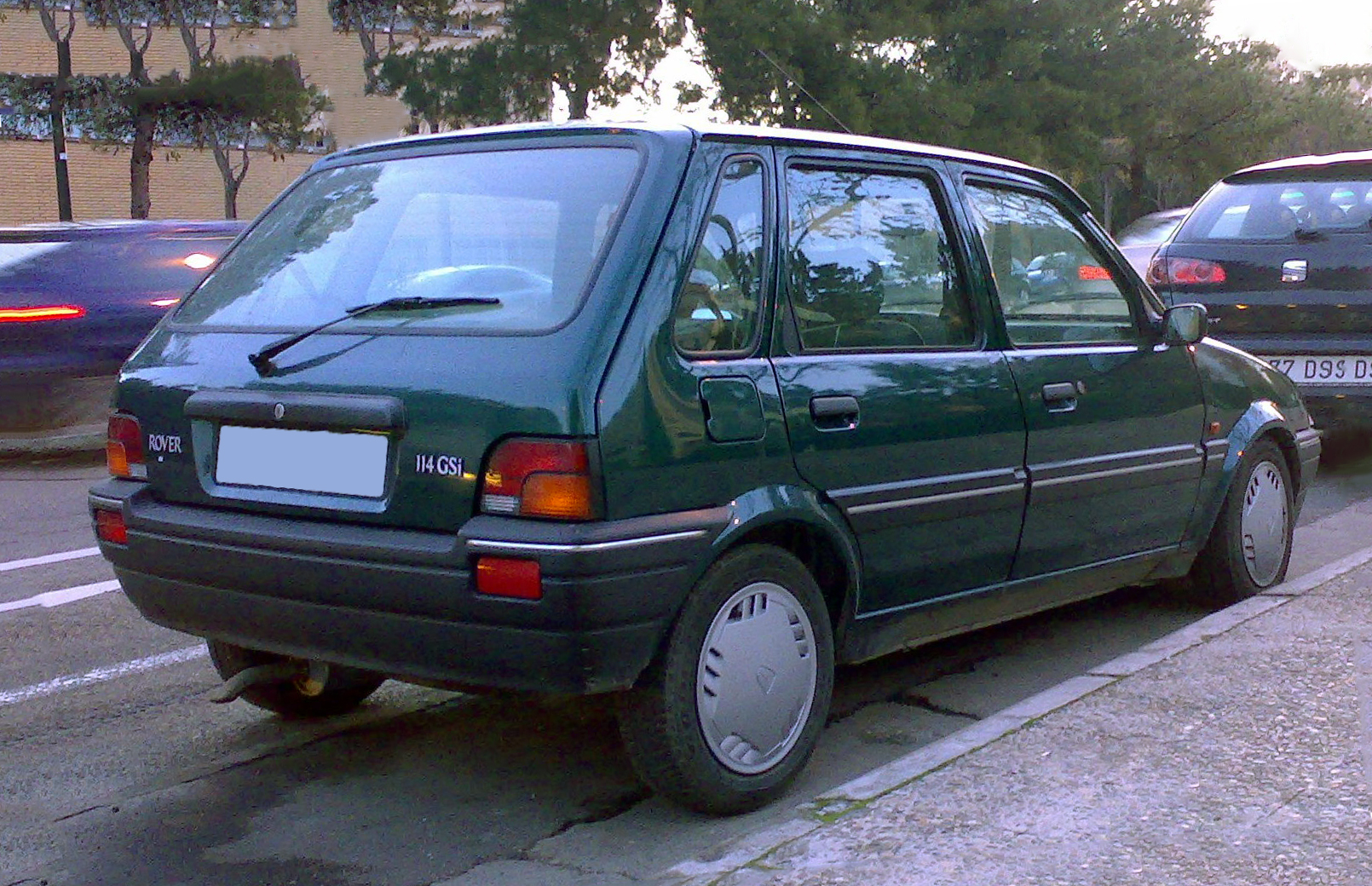 A 1993 Rover 114 GSi (called the Rover Metro in UK) in british racing green